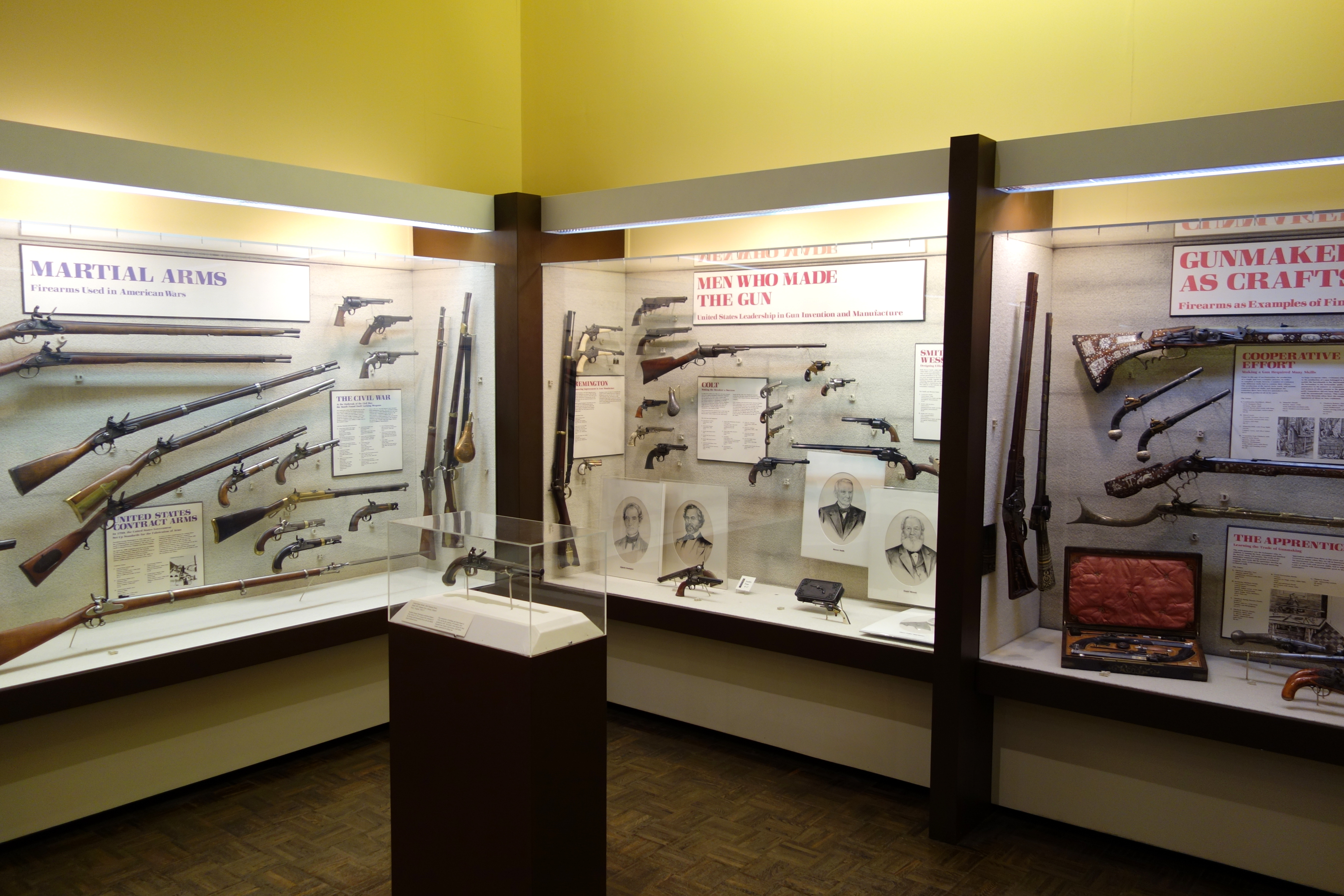 Exhibit in the Huntington Museum of Art, Huntington, West Virginia, USA. This artwork is in the public domain because the artist died more than 70 years ago.